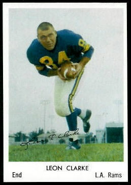 A 1959 promotional image of Los Angeles Rams player Leon Clarke.